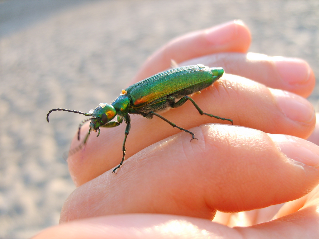 "Spanish Fly", the blister beetle Lytta vesicatoria --Vitalfranz 14:12, 17 January 2008 (UTC)